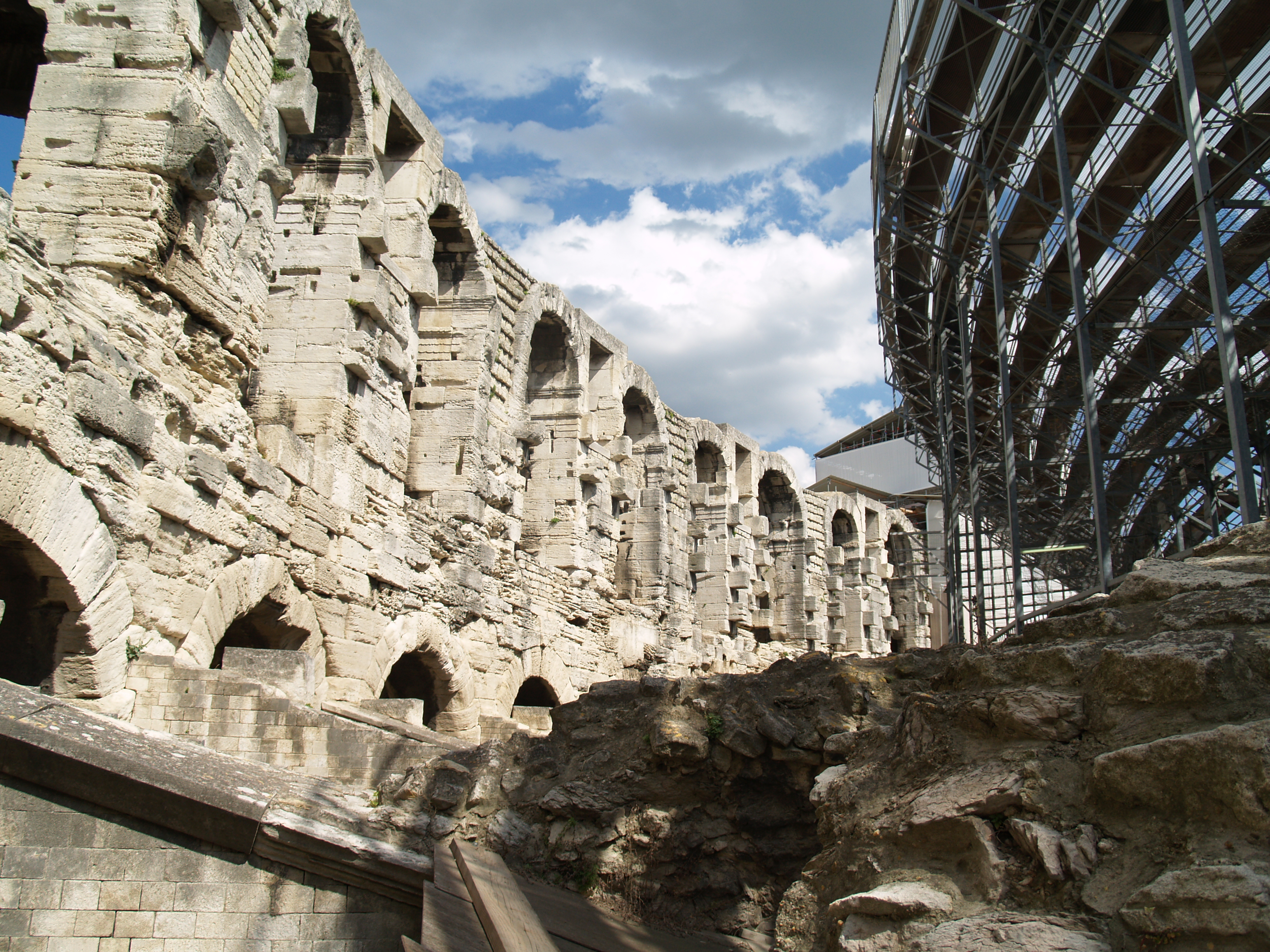 Interior of Arles arena.